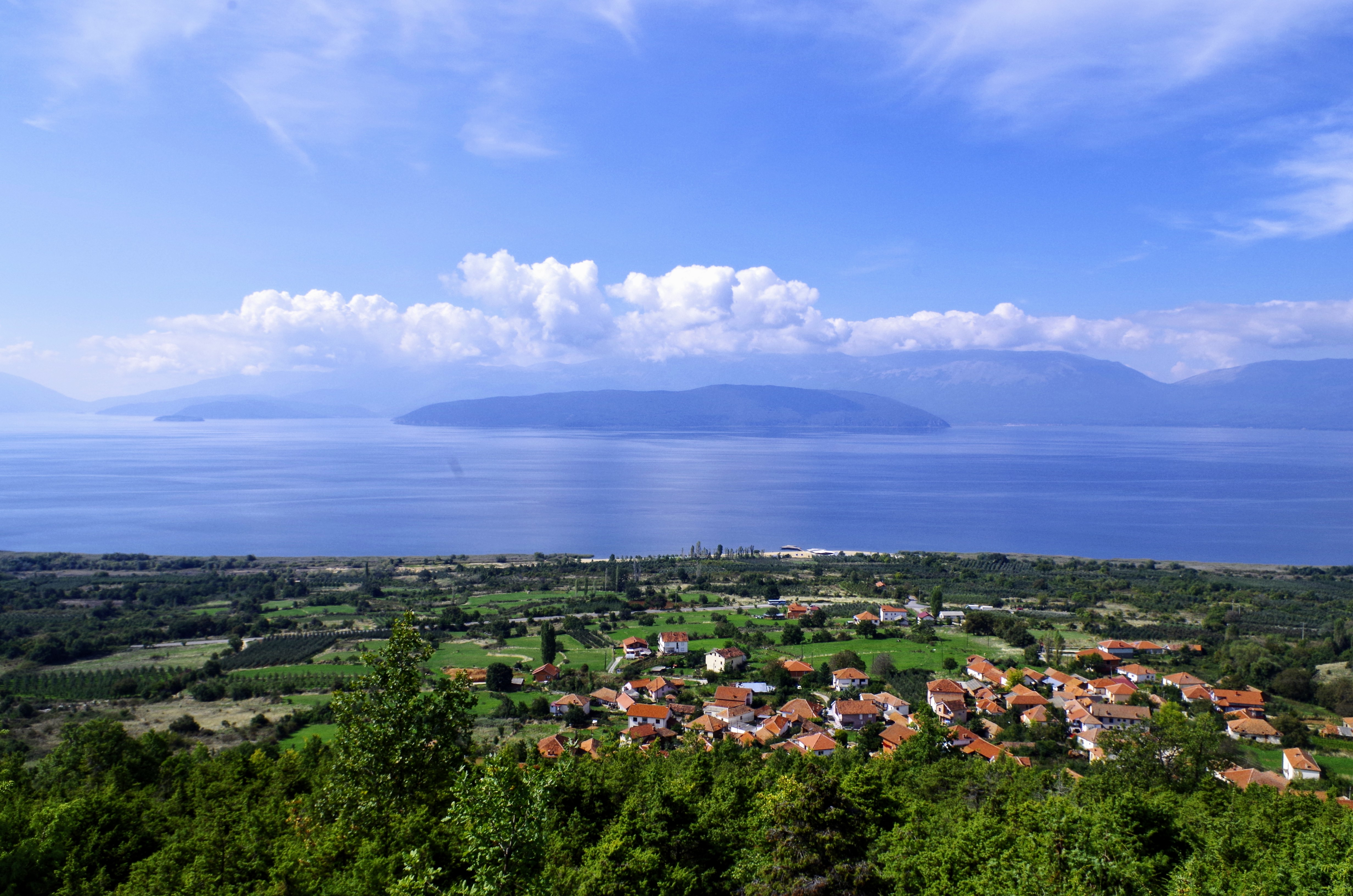 View of the village Slivnica